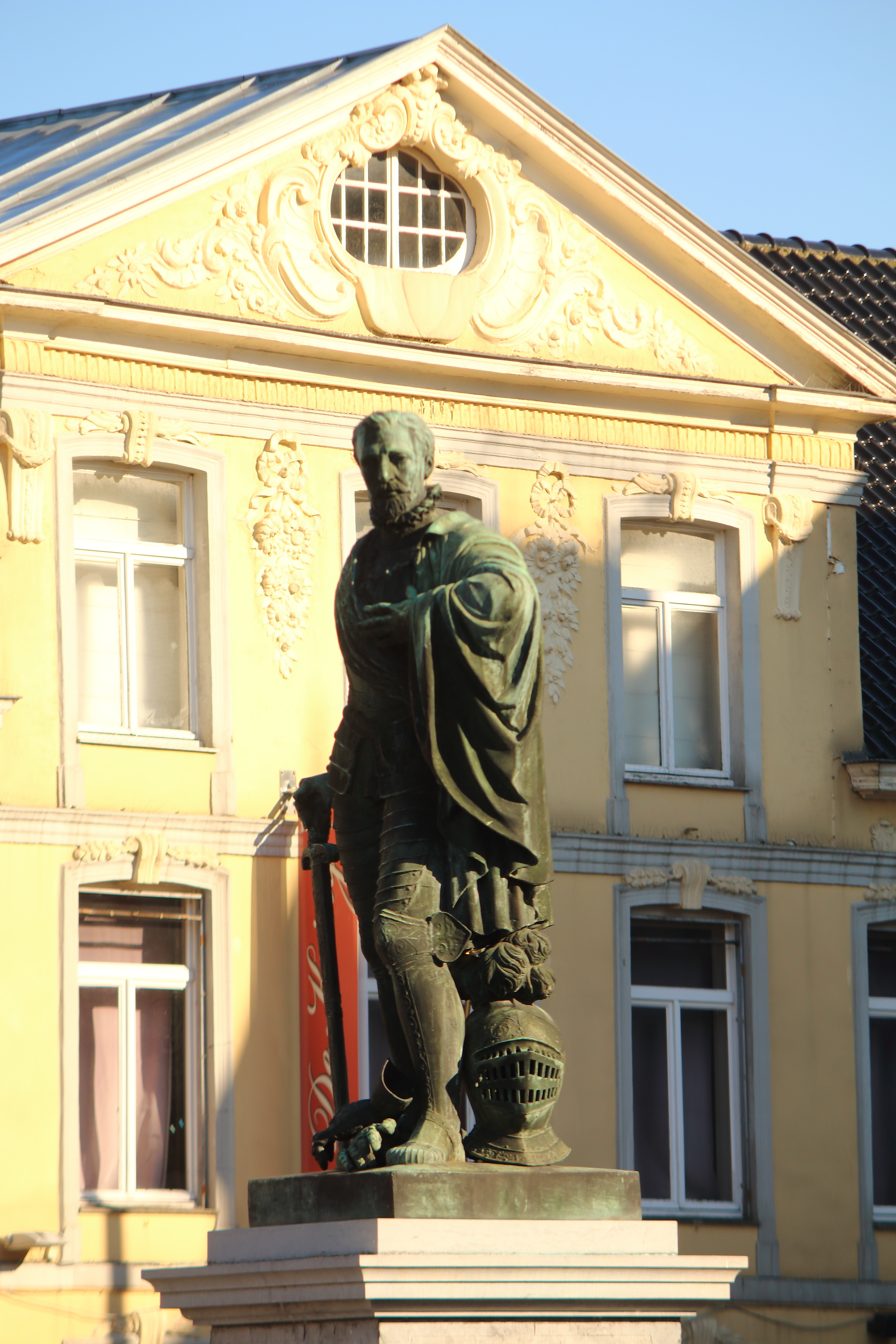 Egmont's statue, market square, Zottegem, Flanders, Belgium